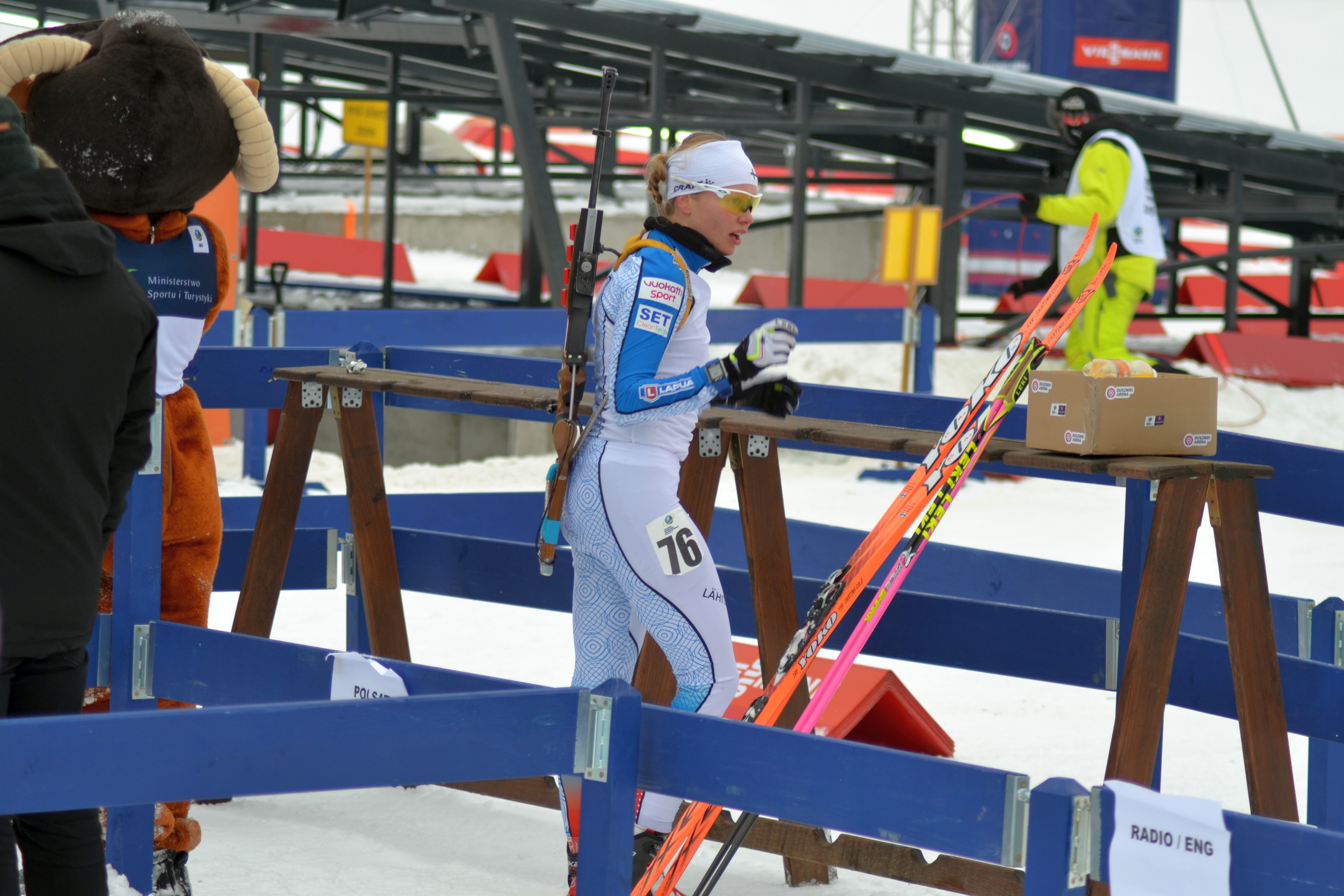 Open European Championships Biathlon 2017, Individual Women's race, held on January 25th.